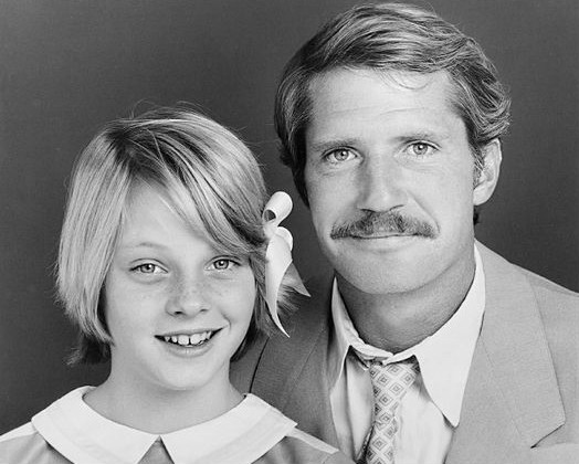 Publicity photo of Jodie Foster and Christopher Connelly from the television program Paper Moon.